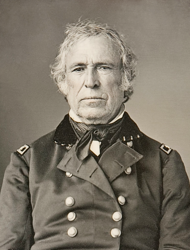 Half-Plate Daguerreotype of Zachary Taylor, cropped 8x10 to remove framing.